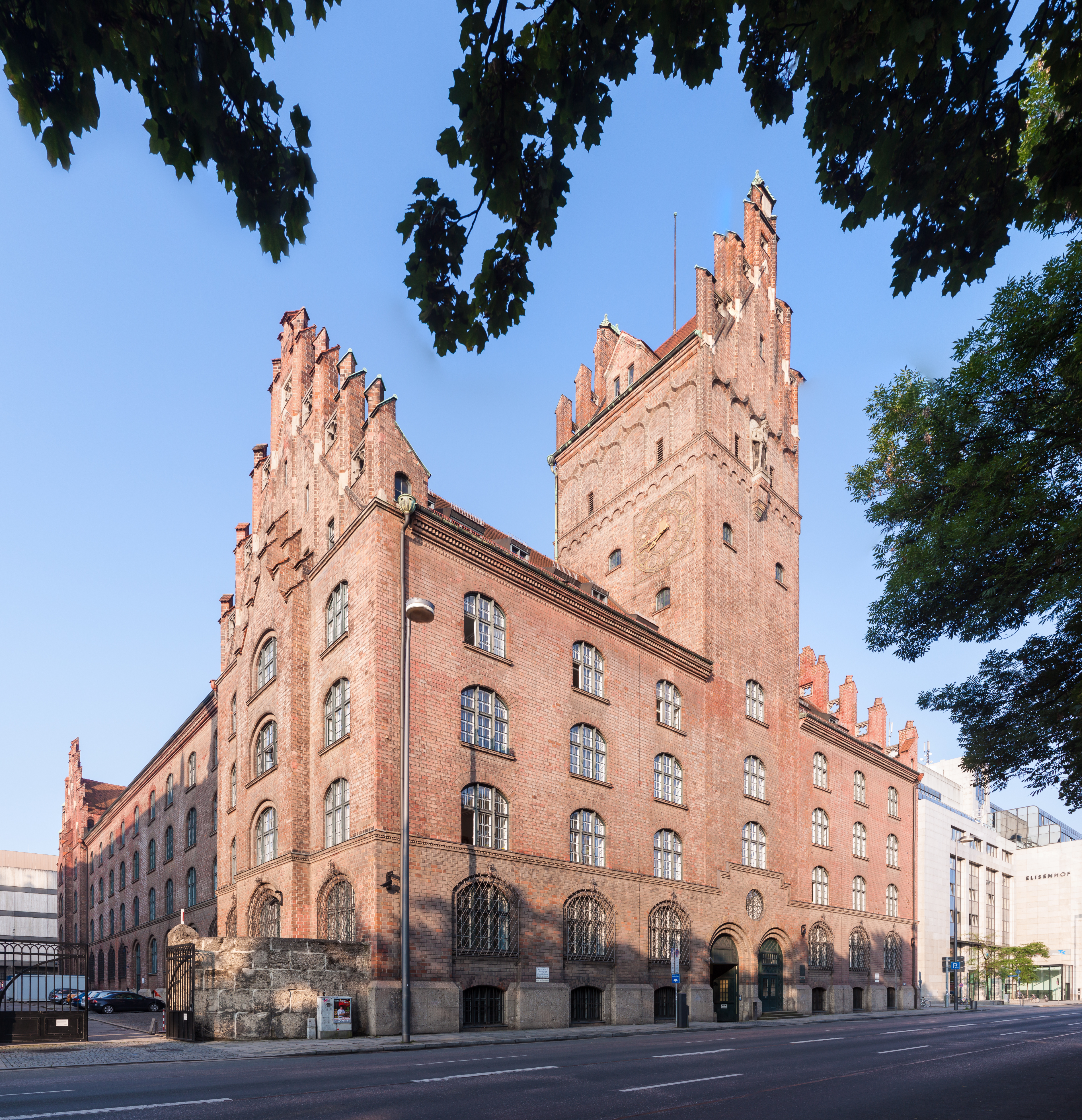 Court house Prielmayerstraße 5 in Munich with the higher regional court of Munich and the bavarian constitutional court.